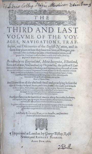 The title page of Richard Hakluyt's work The Principal Navigations, Voiages, Traffiques and Discoueries of the English Nation, Made by Sea or Overland... at Any Time Within the Compasse of these 1500 [1600] Yeeres, &c. (London: G. Bishop, R. Newberie & R. Barker, 1599).